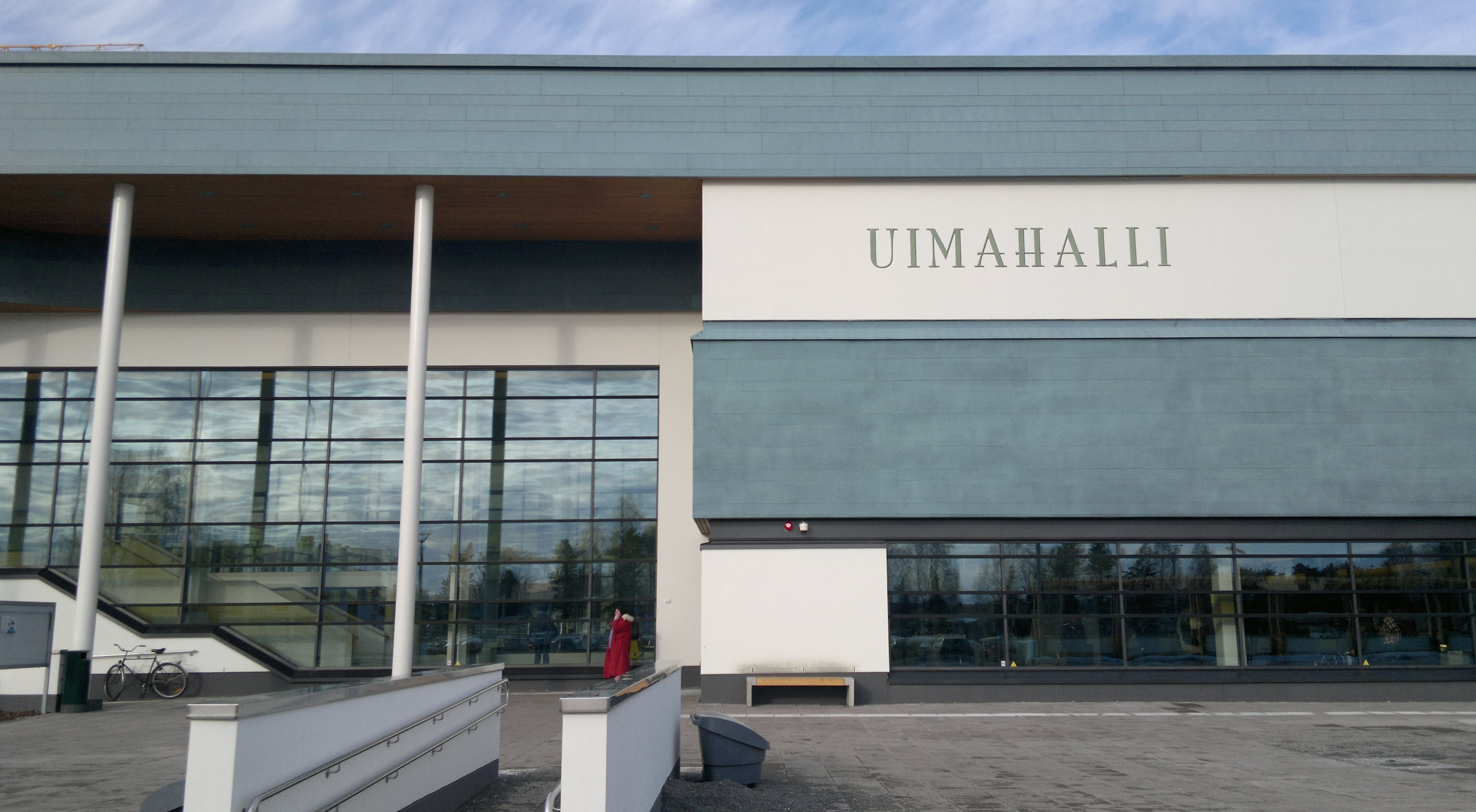 Pori city centre swimming hall.Built 2011